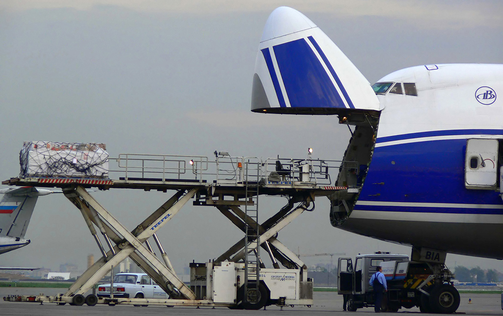 AirBridgeCargo Airlines Boeing 747-200F nose loading door open and cargo loader at Sheremetyevo International Airport